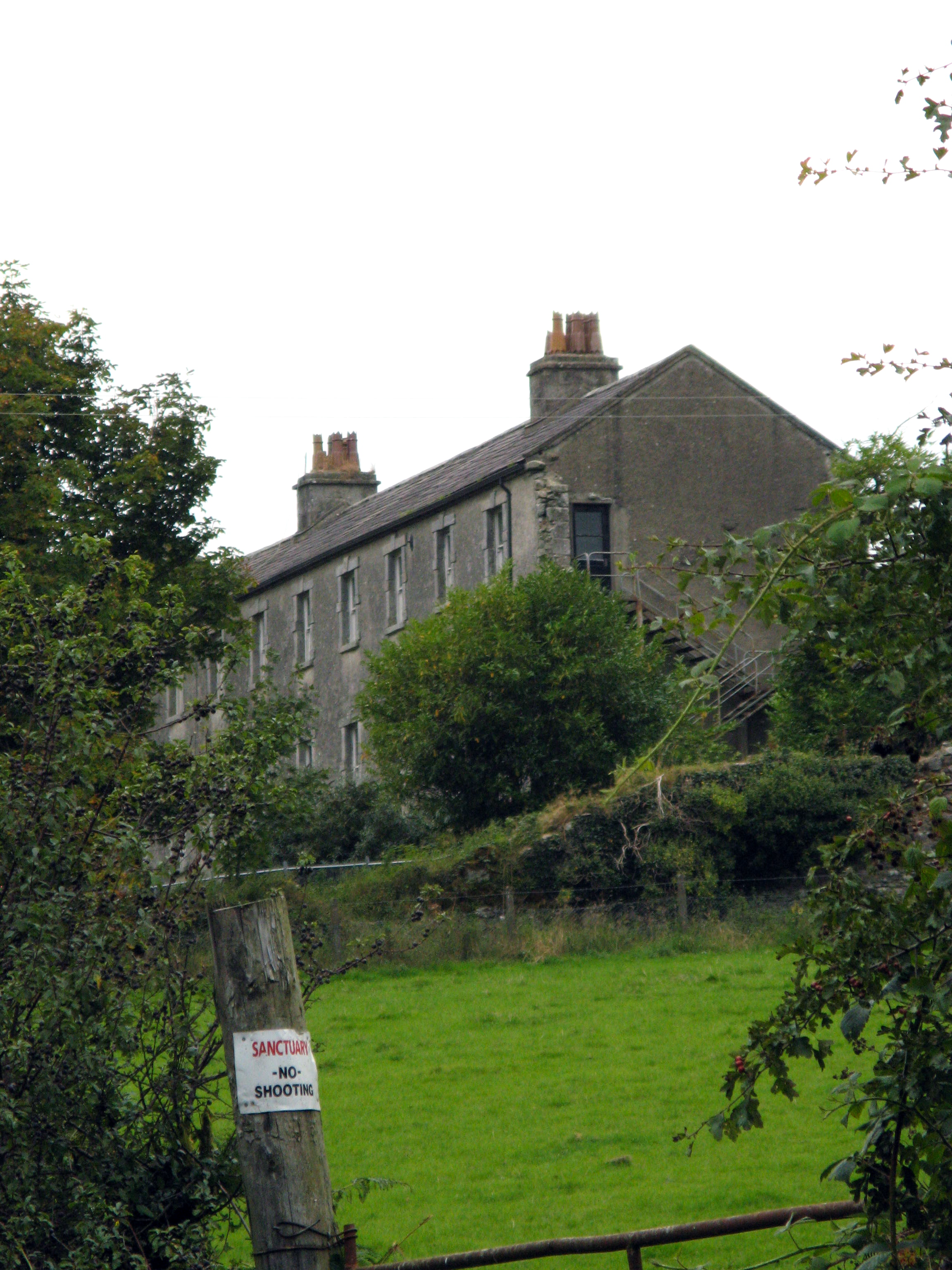 Aghavannagh barrack building, former British military barrracks located on the Military Road originally constructed between 1804 and 1809, in the wake of the 1798 rebellion at Aghavannagh, County Wicklow, Ireland located near the Wicklow Way, long distance walk. Former An Óige youth hostel.NOTE: Correct spelling is Aghavannagh not as file name!